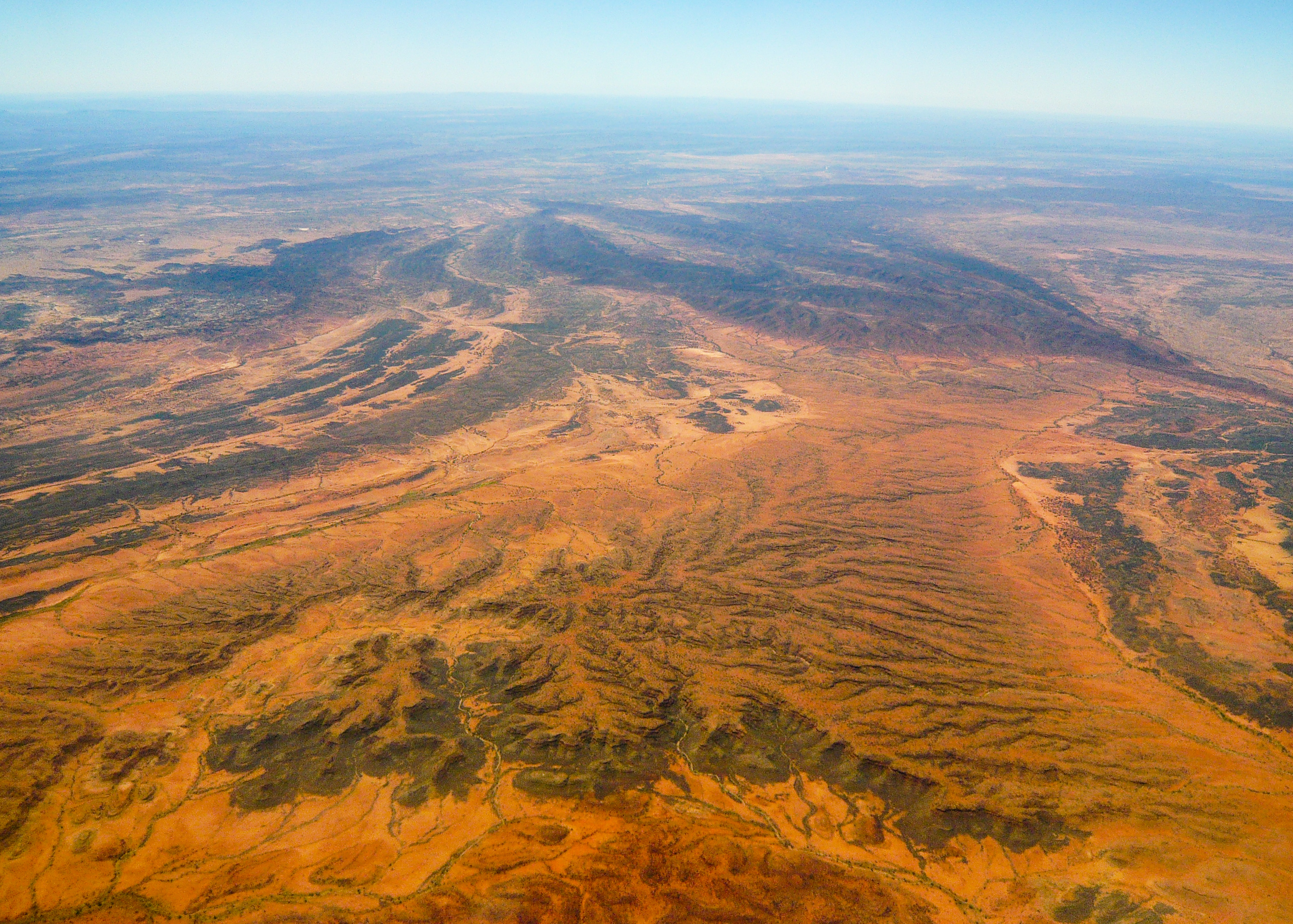 Outback